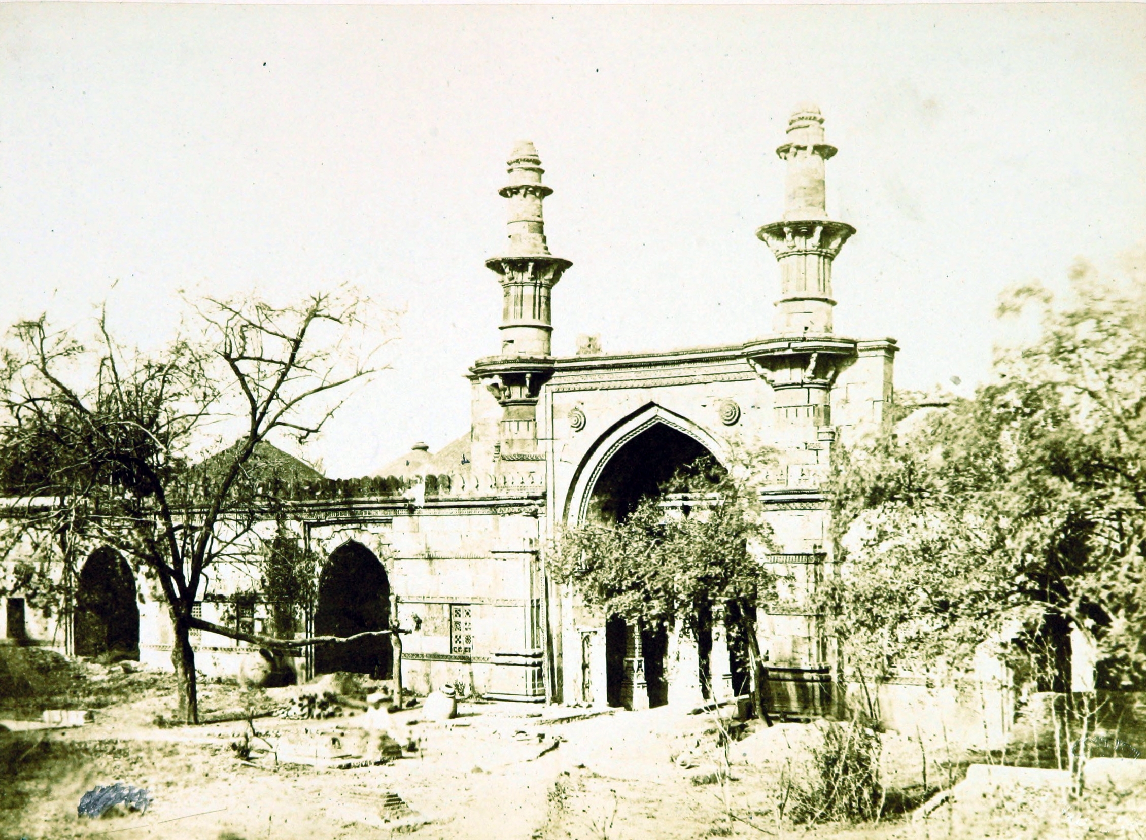 Image taken from: Title: "Architecture at Ahmedabad, the Capital of Goozerat, photographed by Colonel Biggs, ... With an historical and descriptive sketch, by T. C. H., ... and architectural notes by J. Fergusson, etc" Author: HOPE, Theodore Cracraft - Sir, K.C.S.I Contributor: BIGGS, Thomas. Contributor: FERGUSSON, James - Architect Shelfmark: "British Library HMNTS 10057.f.17.", "British Library OC V 6665" Page: 129 Place of Publishing: London Date of Publishing: 1866 Issuance: monographic Identifier: 001730119 Note: The colours, contrast and appearance of these illustrations are unlikely to be true to life. They are derived from scanned images that have been enhanced for machine interpretation and have been altered from their originals. If you wish to purchase a high quality copy of the page that this image is drawn from, please order it here. Please note that you will need to enter details from the above list - such as the shelfmark, the page, the book's volume and so on - when filling out your order. Following this or the link above will take you to the British Library's integrated catalogue. You will be able to download a PDF of the book this image is taken from, as well as view the pages up close with the 'itemViewer'. Click on the 'related items' to search for the electronic version of this work. Click here to see all the illustrations in this book and click here to browse other illustrations published in books in the same year. Please click on the tags shown on the right-hand side for other ways to browse the illustrations.